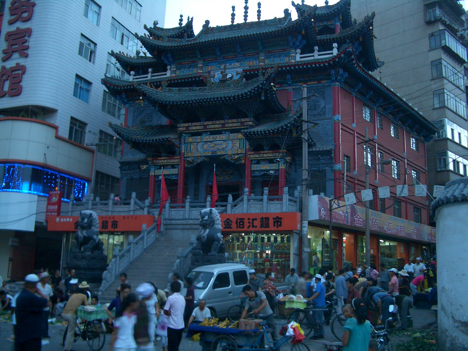 Busy market activity around sunset in Lanzhou's Xiguan neighborhood ( the west end of Lanzhou's downtown)